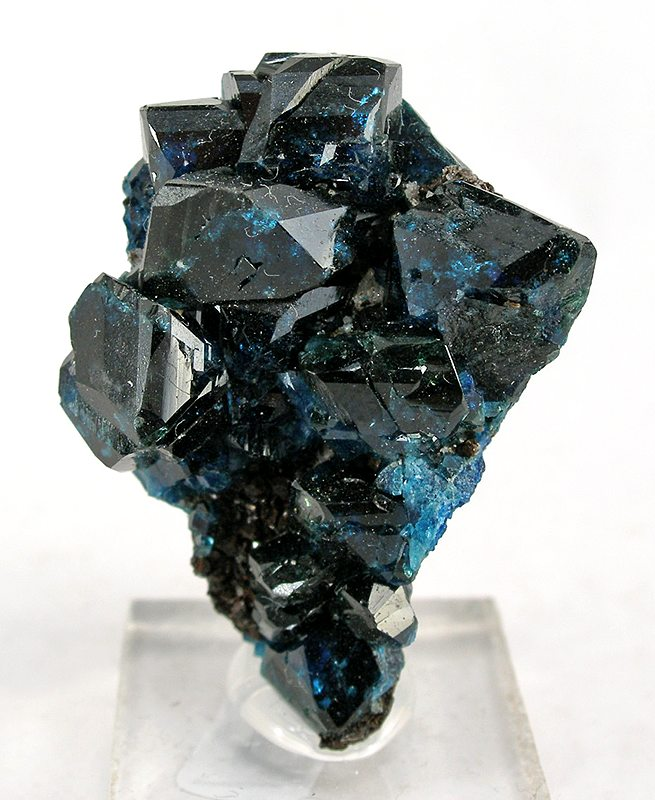 Lazulite Locality: Near Rapid Creek, Yukon, Canada Size: miniature, 3.9 x 3.0 x 1.9 cm Lazulite I particularly like this matrix piece because the lazulite crystals are shaped 3-dimensionally as if this were a hand, closing, and so they are superbly presented. The crystals, to 1.2 cm across, are gemmy, lustrous, and have that unusual bi-coloration of royal blue and emerald green.